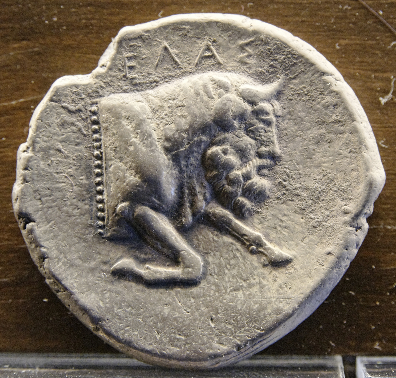 Forepart of man-headed bull: the river-god Gelas, swimming right. Silver tetradrachm from Gela, Sicily.